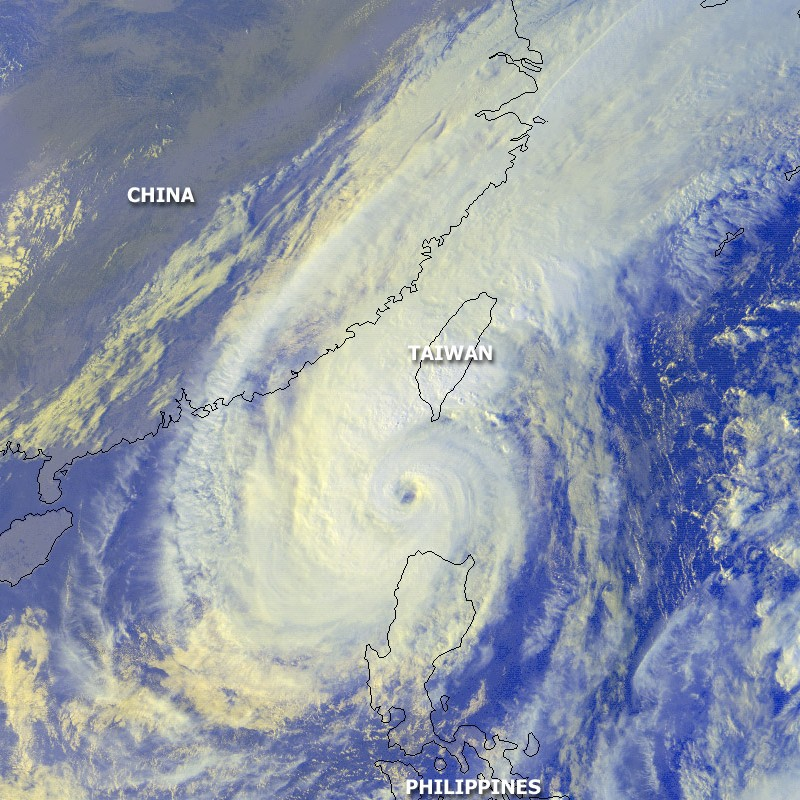 A rejuvenated Typhoon Xangsane was located near 22.7N 121.3E at 21:00 UTC. Xangsane had been moving north-northeast at 19 knots with maximum sustained winds estimated at 90 knots.